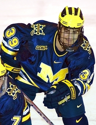 Max Pacioretty (39) playing for the University of Michigan